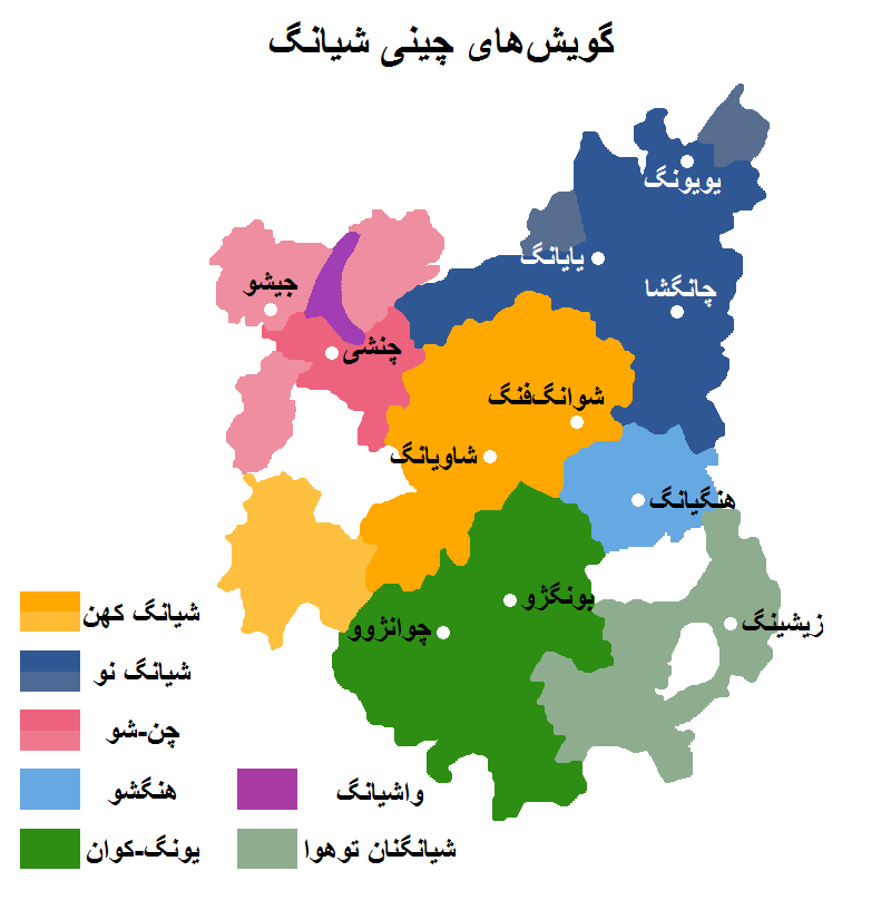 Persian translation of File:Xiang Waxiang and Xiangnan Tuhua Cities Labeled.png